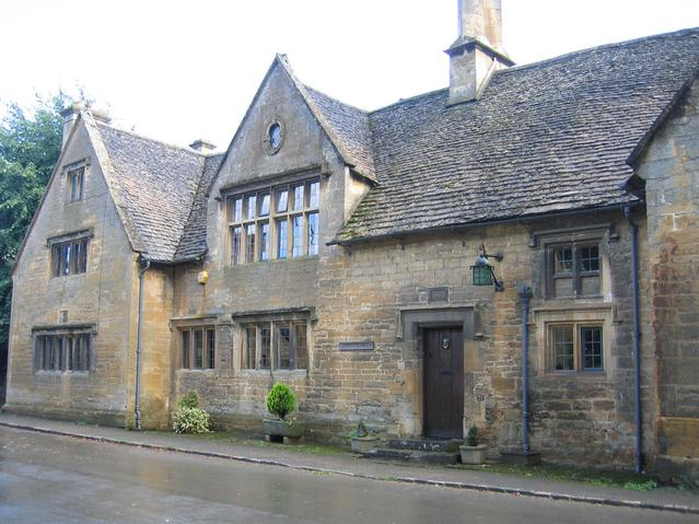 Old Manor Farm, Stanton. The old farm house in the centre of the village, complete with another of the lamps (229129) by the front door.